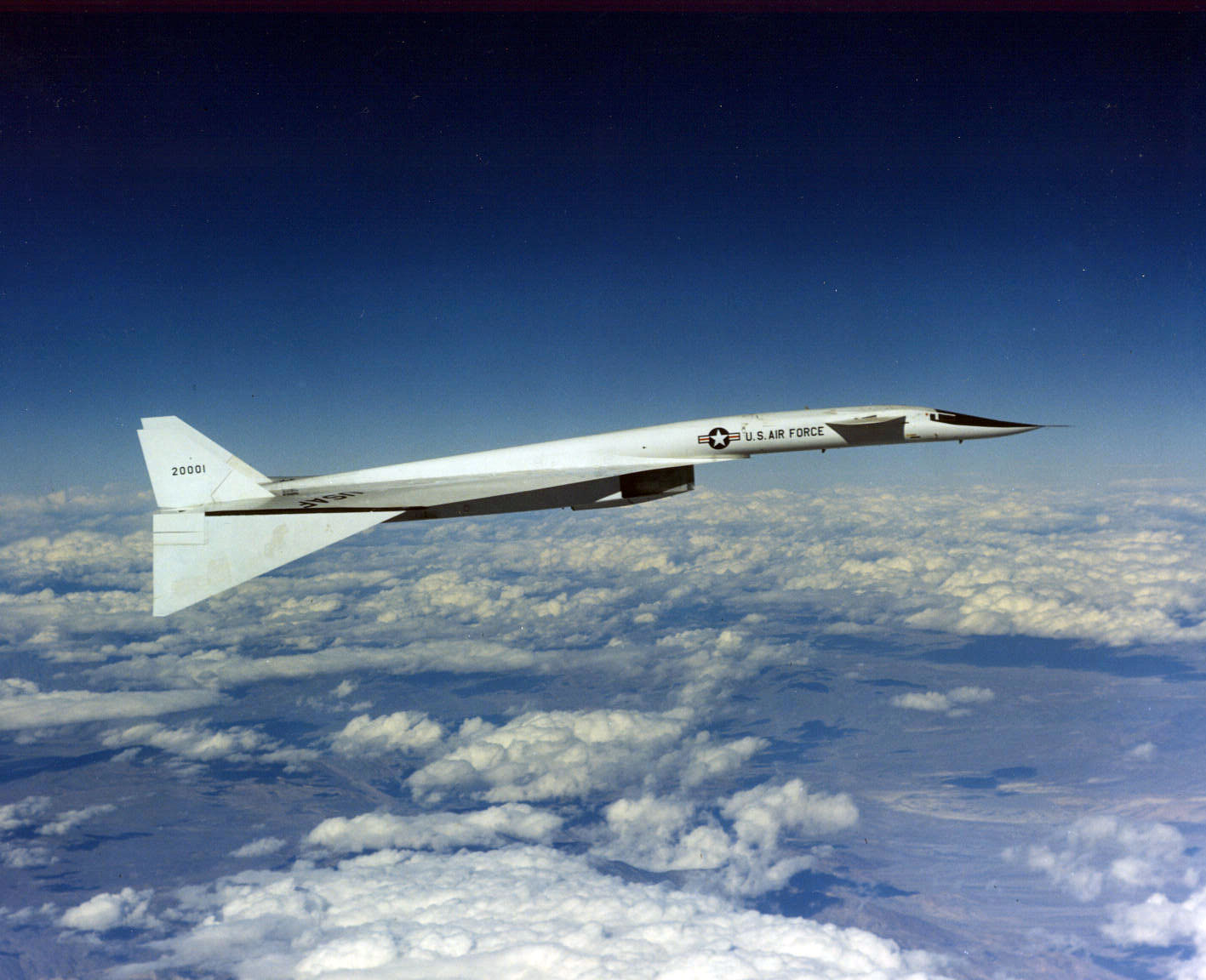 North American XB-70A Valkyrie in flight with wingtips in 65 percent (full) drooped position